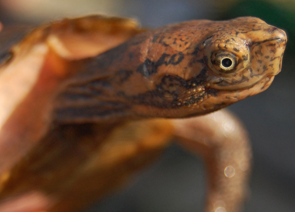 Young Cyclemys dentata. From Banten, West Java, Indonesia.